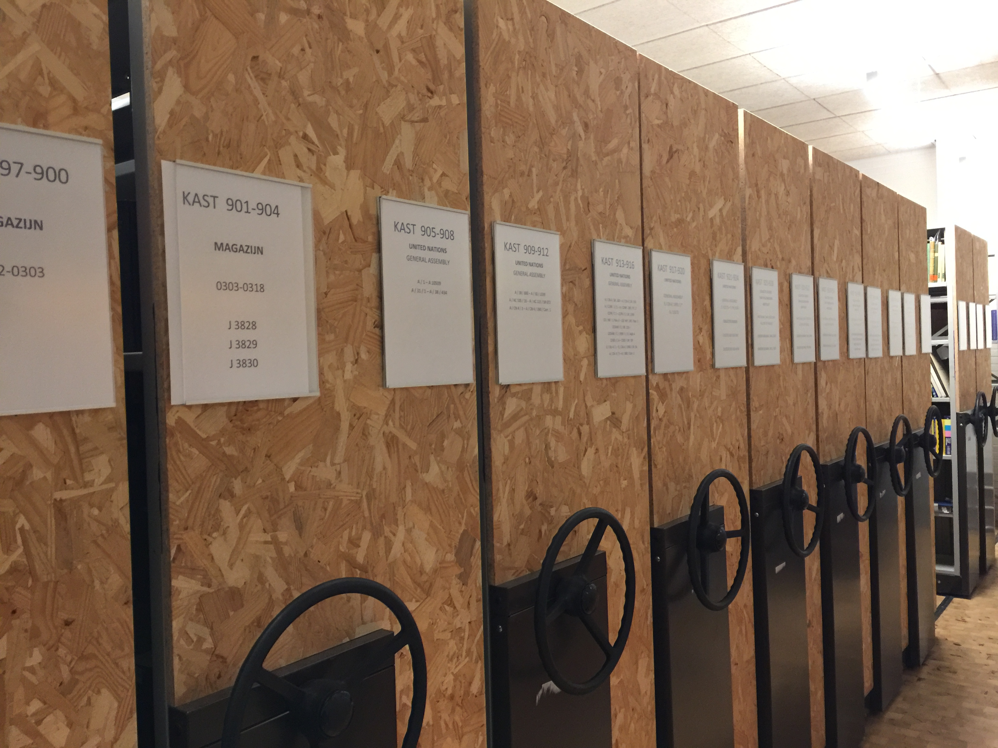 Mobile aisle shelving, roller racking system in Leiden Law Library, 2019